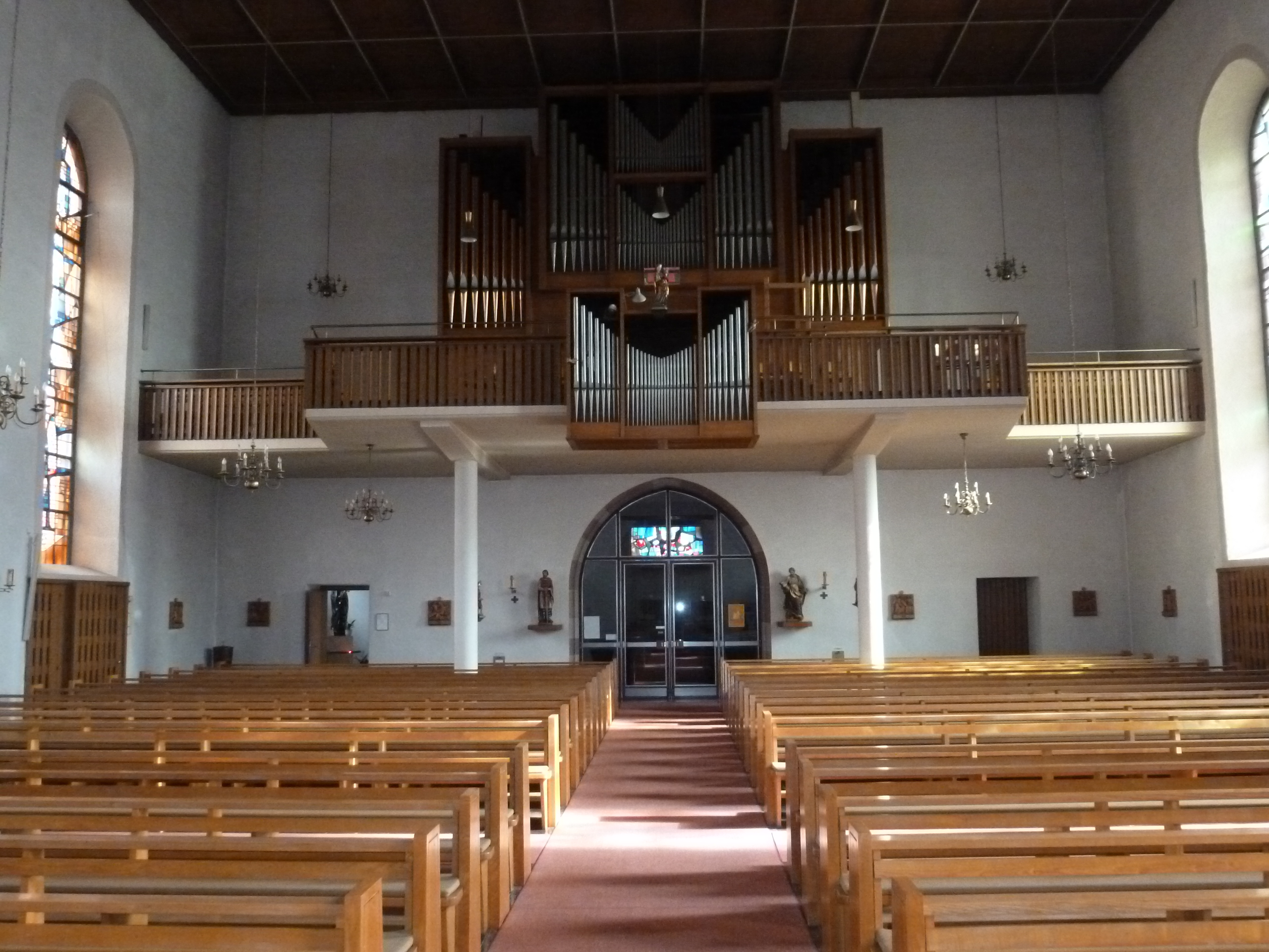 Interior of church St. Nikolaus (Ichenheim, Neuried, Baden-Württemberg, Germany), viewed toward main entrance